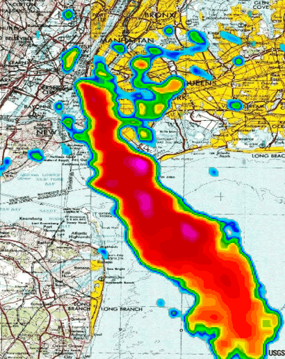 This radar image shows the smoke plume from the World Trade Center after the terrorist attacks of 2001-09-11, at 6:09 p.m. Eastern Daylight Time, overlain on a topographical map. The data is from the NWS NEXRAD radar at KDIX (Mt. Holly, NJ) and was processed in the NCDC's JAVA NEXRAD tool.